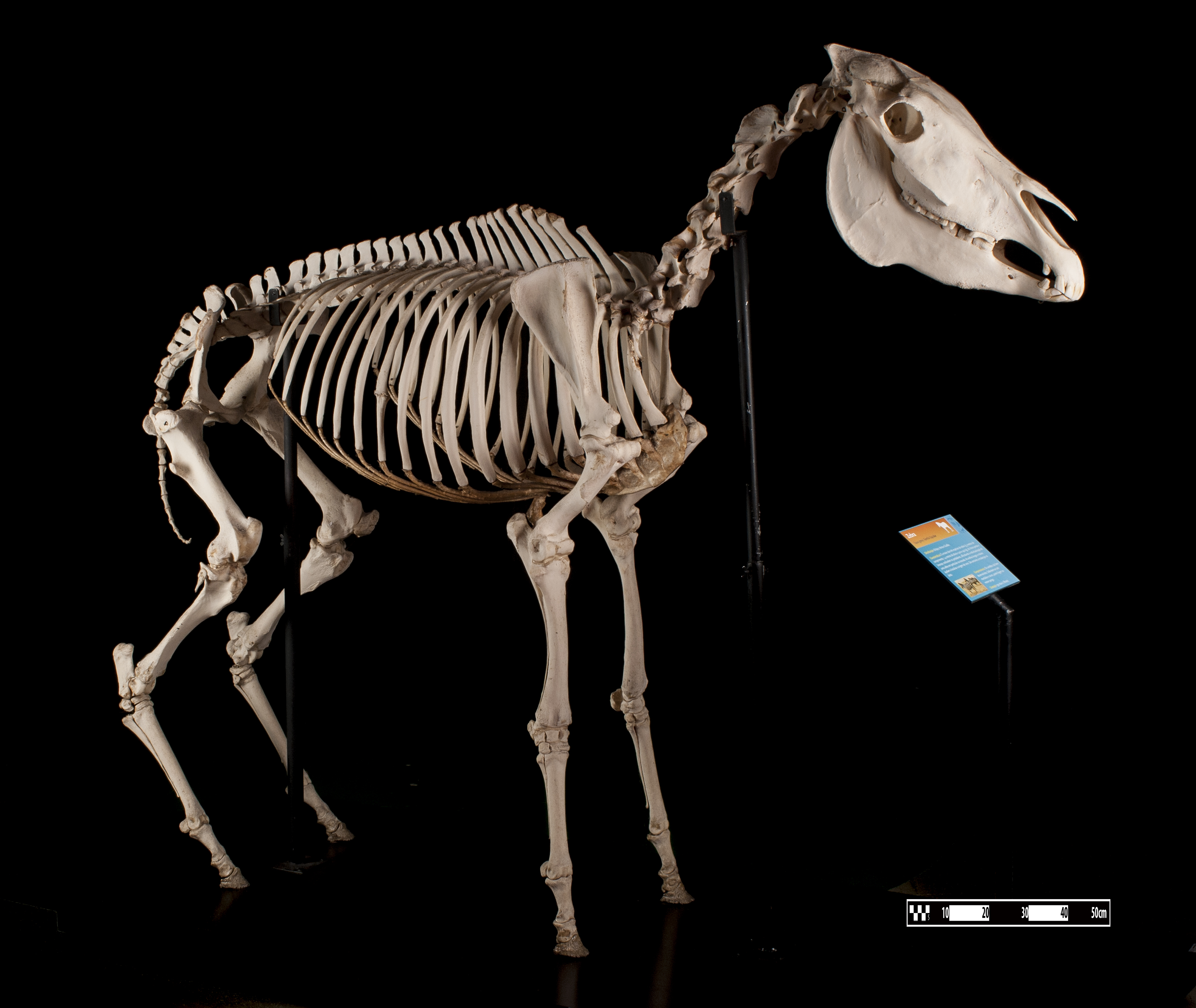 Zebra skeleton. Equus grevyi”. Specimen of zebra skeleton prepared by the bone maceration technique and on display at the Museum of Veterinary Anatomy, FMVZ USP.